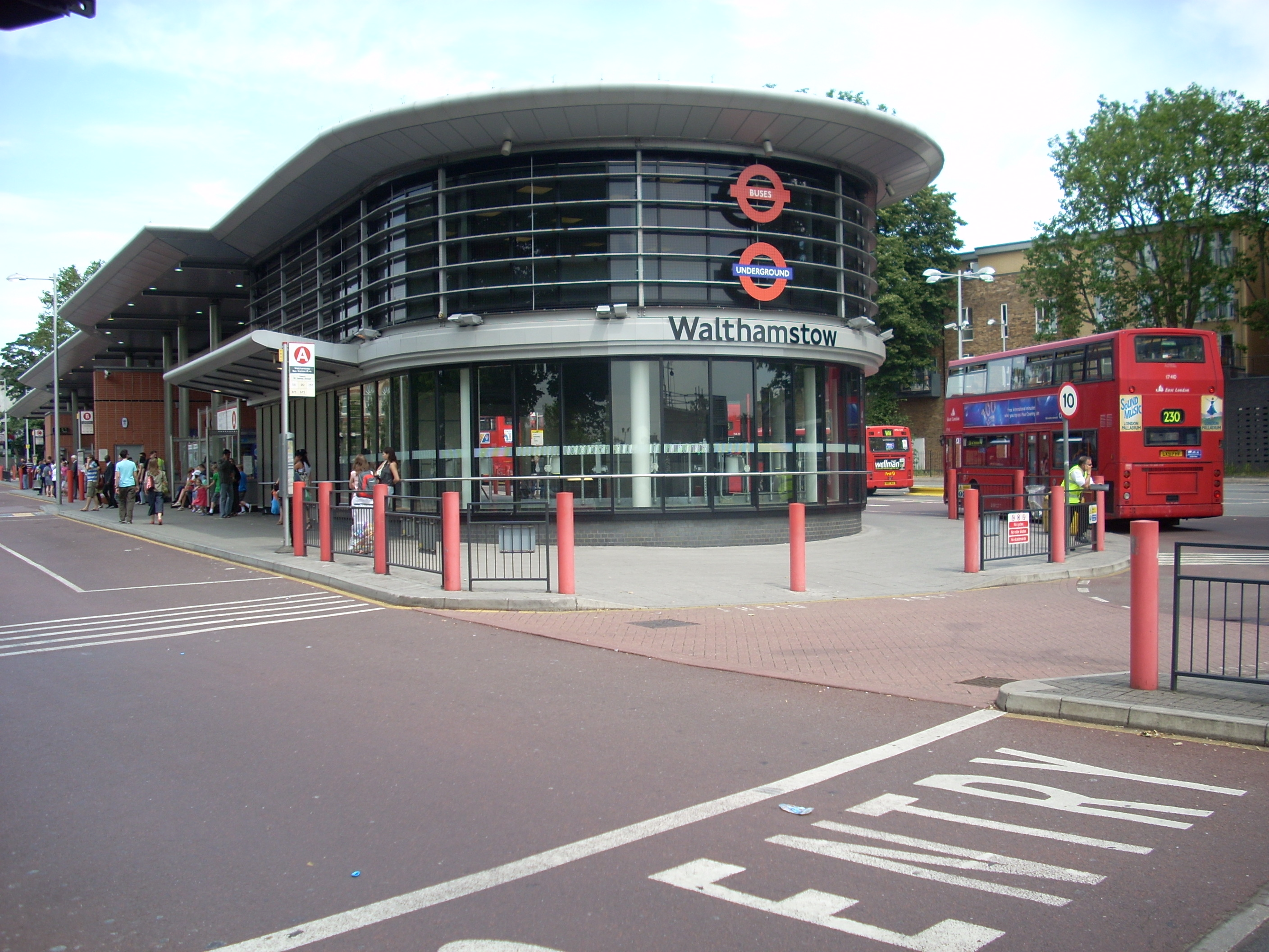 Walthamstow Central Bus Stn - June 2009